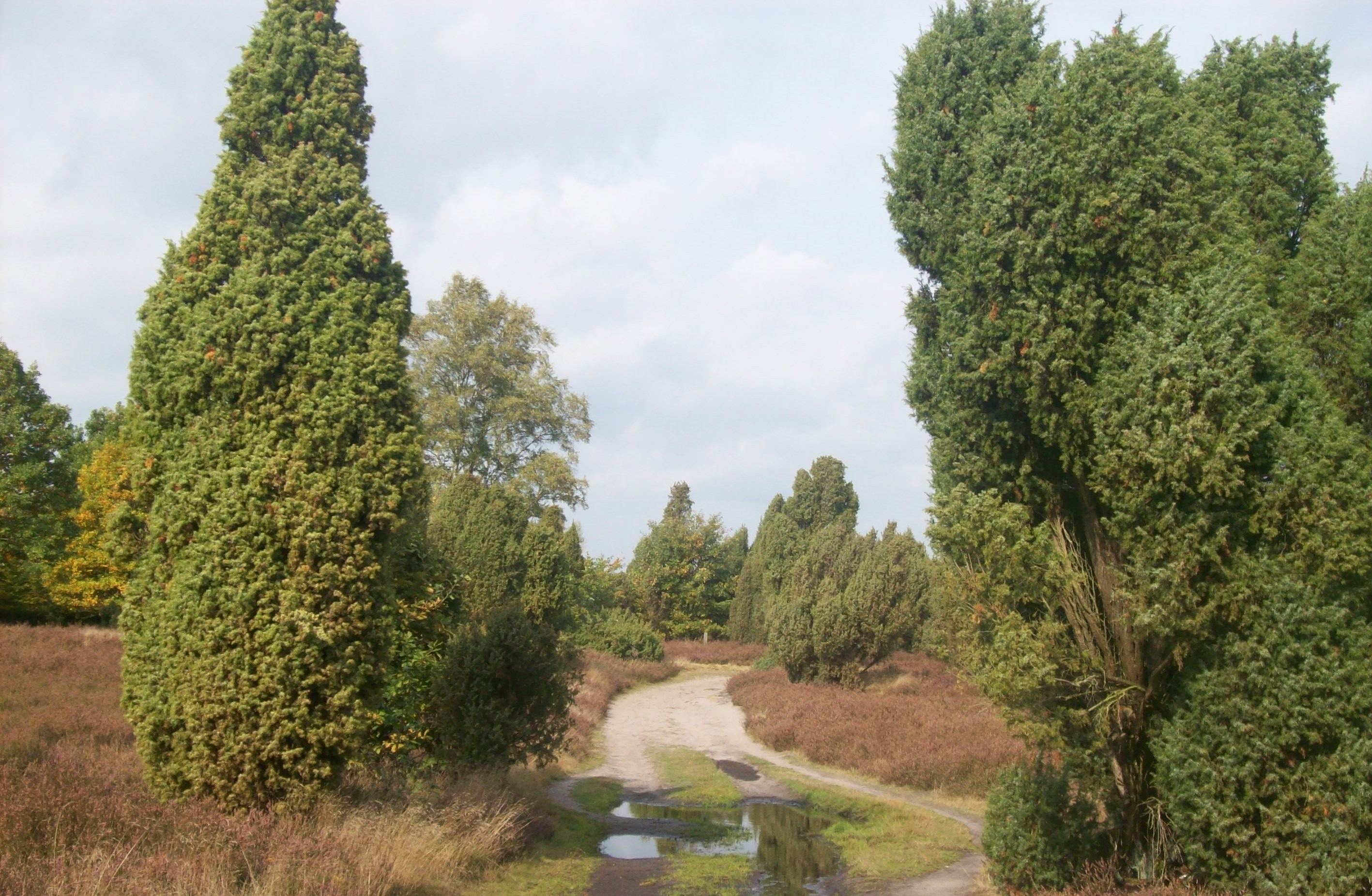 Scene in the German nature reserve Heiliger Hain with junipers